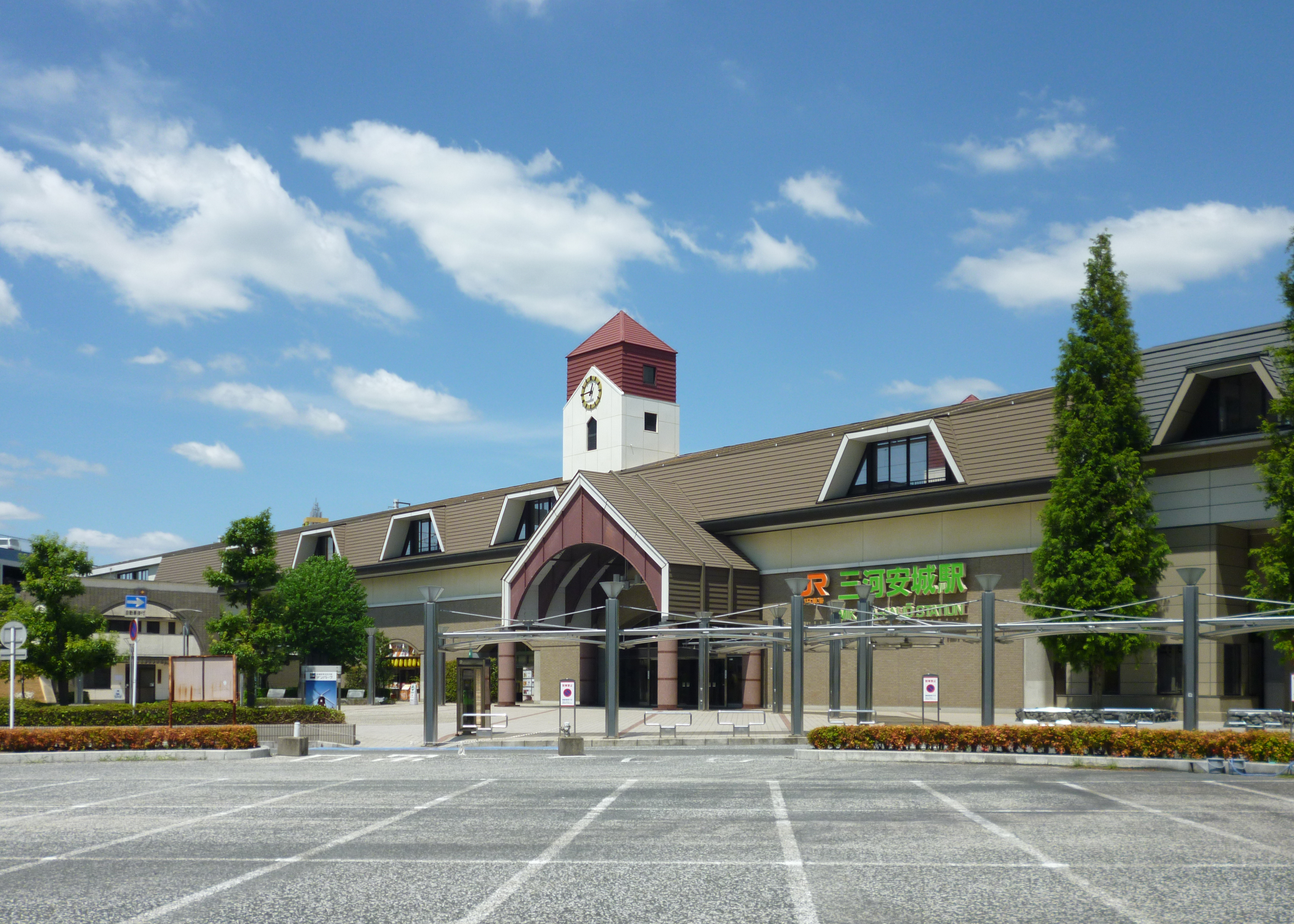 The south side of Mikawa-Anjō Station in Anjō, Aichi Prefecture, Japan